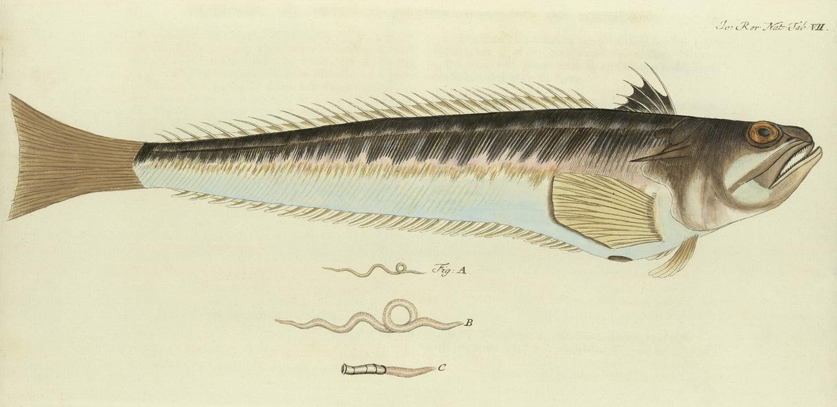 Trachinus draco